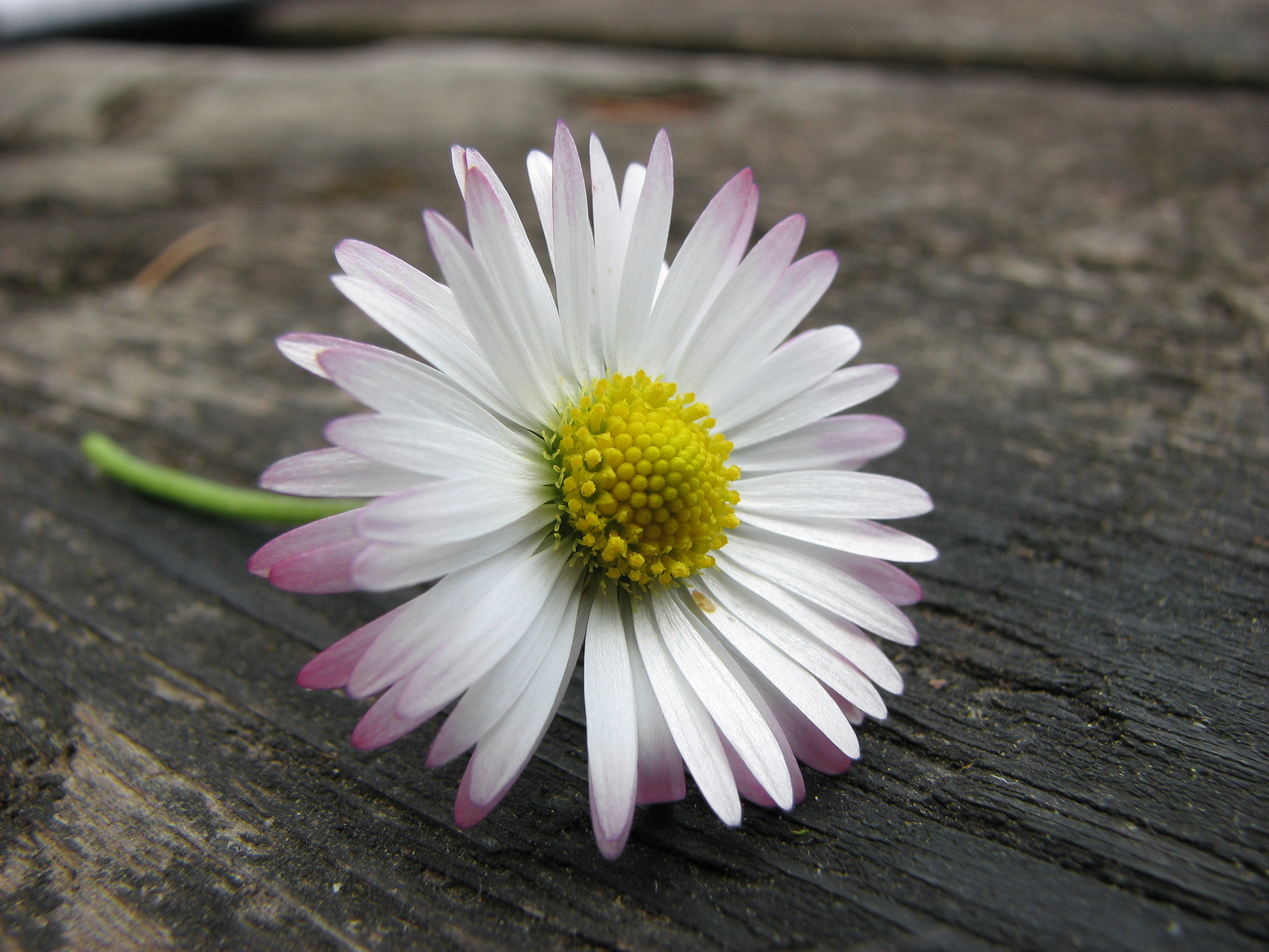 A daisy (Bellis perennis en ) on a table. This picture is another version of the original. It was sharpened and the blue color fringing lessened.